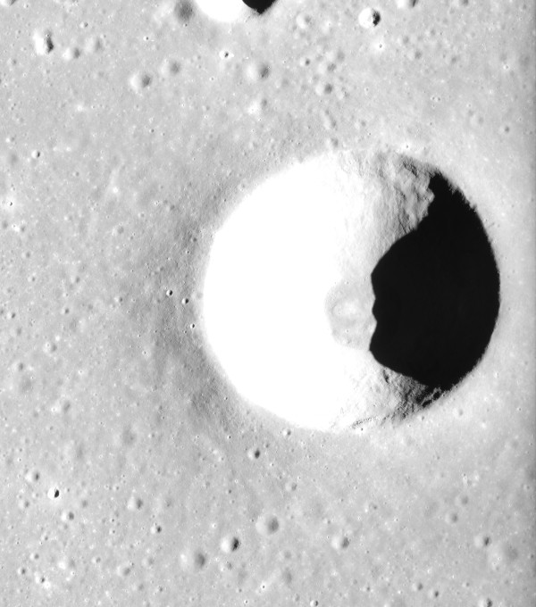 Slightly oblique view of Banting crater, within Mare Serenitatis, on the moon. Taken by Apollo 15 panoramic camera.